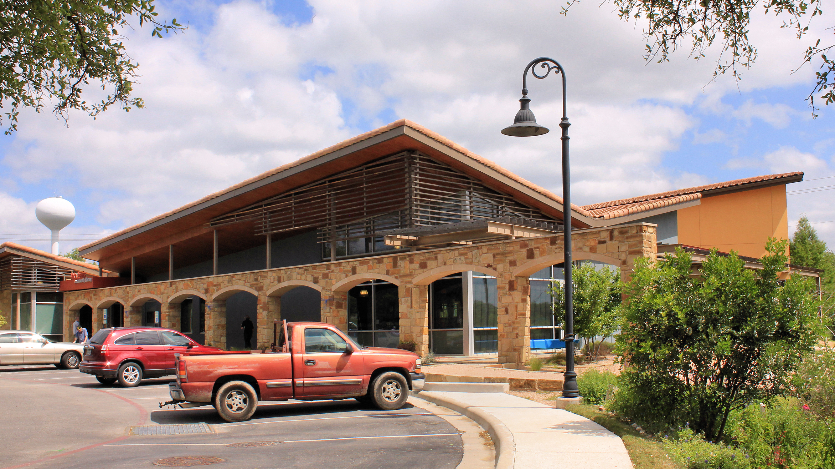 Lake Travis Community Library in Lakeway, Texas, United States